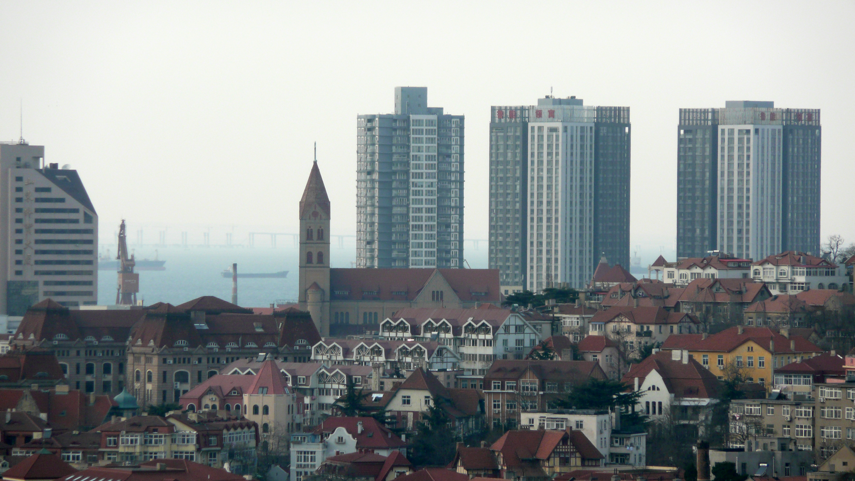 View on the old town of Qingdao with the Catholic church